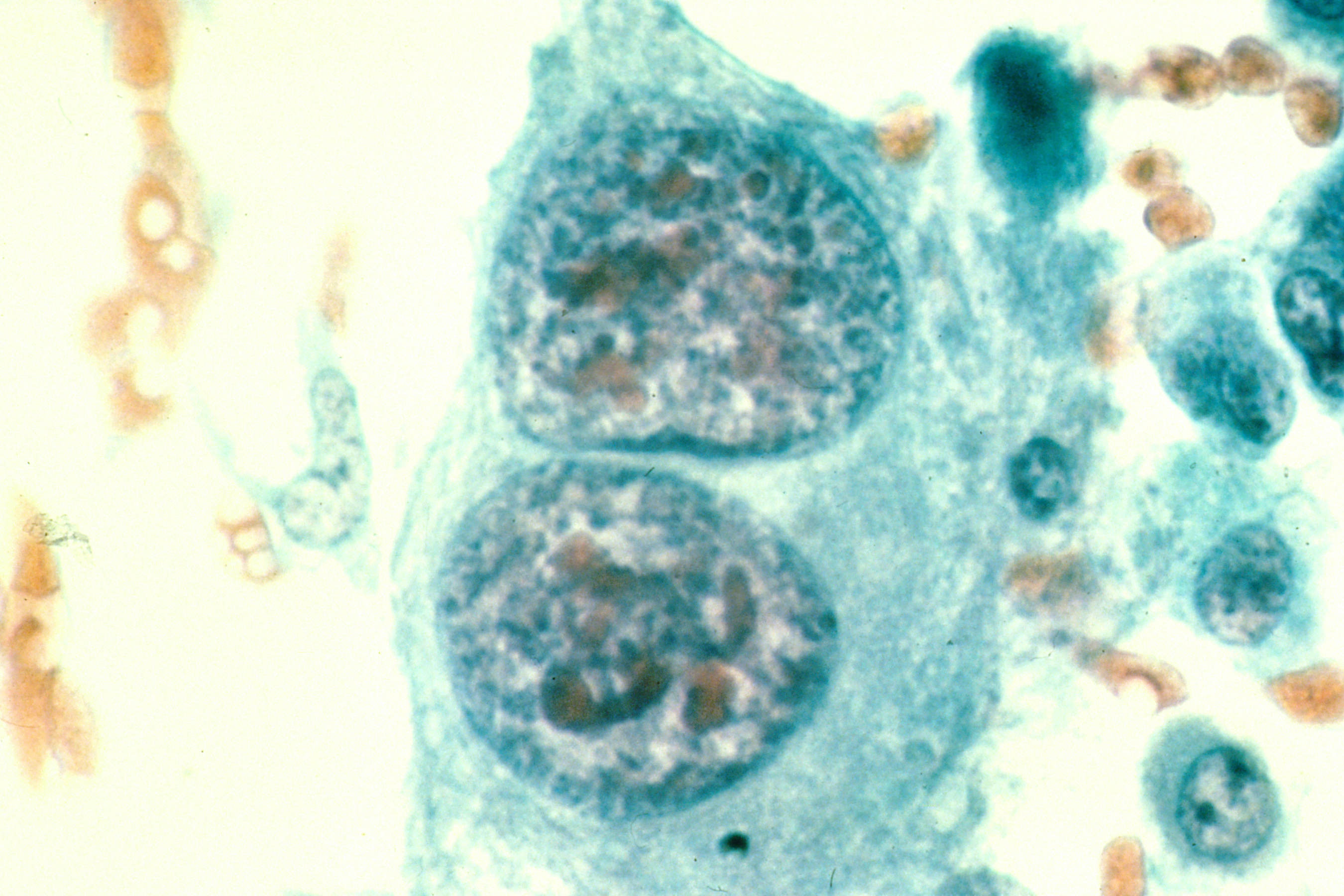 Title Osteosarcoma (Bone Cancer) Description Human malignant osteosarcoma (bone cancer) cells taken by aspirant from a leg mass. Pap stain and magnified to 400x. Topics/Categories Cancer Types -- Bone Cancer Cells or Tissue -- Abnormal Cells or Tissue Type Color, Photo Source Dr. Lance Liotta Laboratory